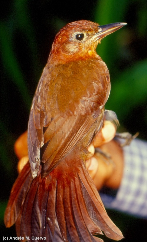 Check out cinnamomeigula!!! Furnariids are just incredible. And this foothill montane reddish beast certainly is one fantastic example. Santiago Claramunt certainly would agree with me on this. This polytypic species is proposed to be transferred to the genus Clibanoris (subgenus Hylocryptus) by Claramunt et al. (2013). Additional taxonomic work on this bird is badly needed.